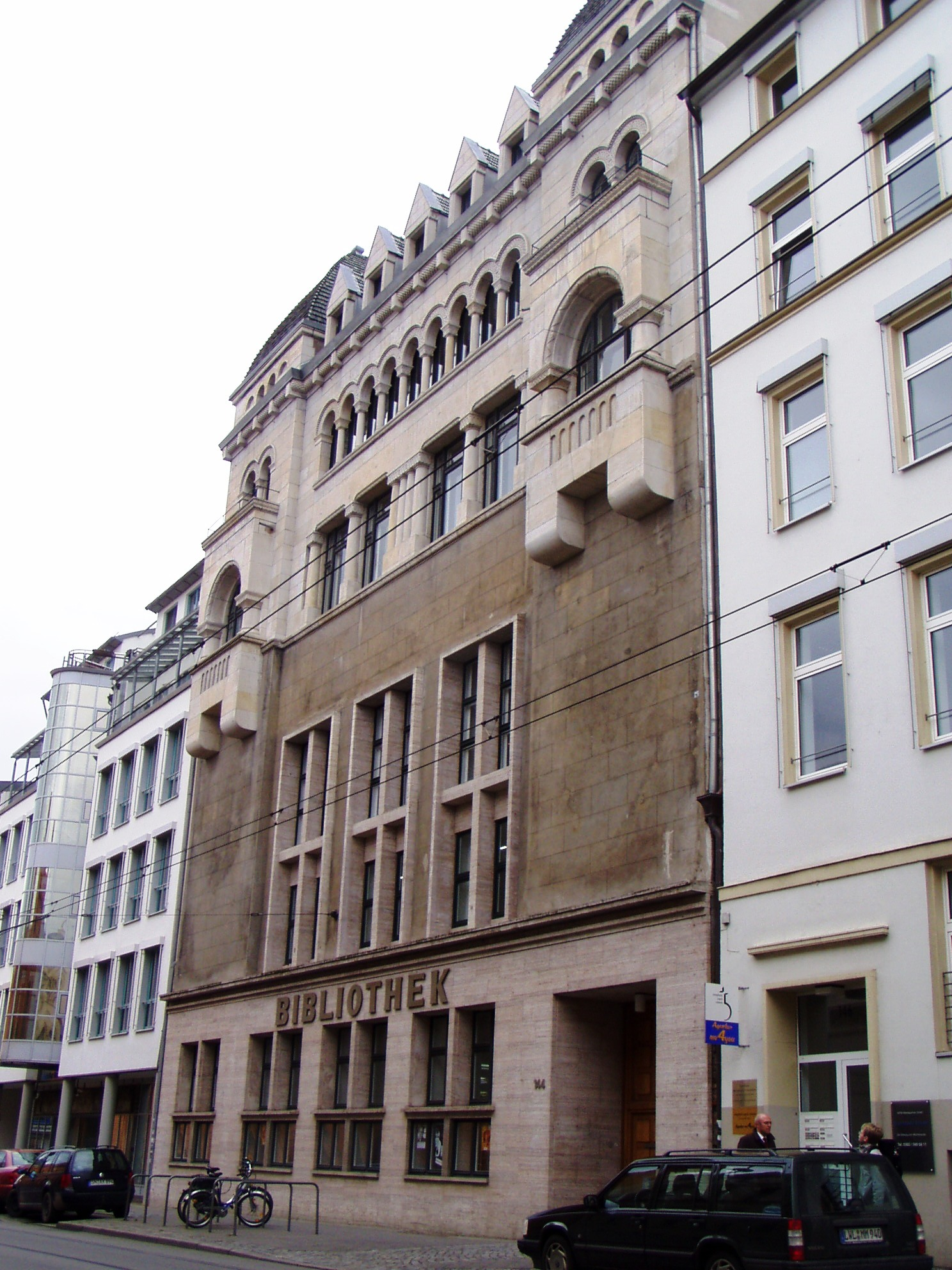 Main Library of Schwerin